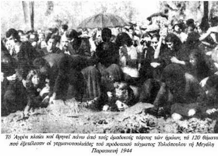 Weeping over 120 residents were killed by the Nazis, Agrinion, Greece, April 14, 1944